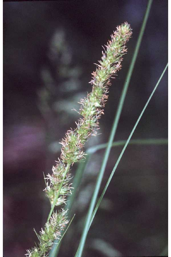 Carex vulpinoidea from Robert H. Mohlenbrock. USDA SCS. 1989. Midwest wetland flora: Field office illustrated guide to plant species. Midwest National Technical Center, Lincoln. Courtesy of USDA NRCS Wetland Science Institute.